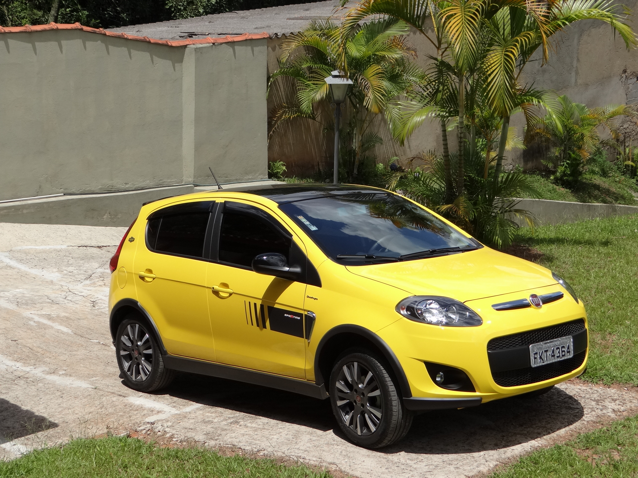 Fiat Palio Sporting 1.6 16V E.torQ Engine with Dualogic transmission. Second generation (326) - Brazil